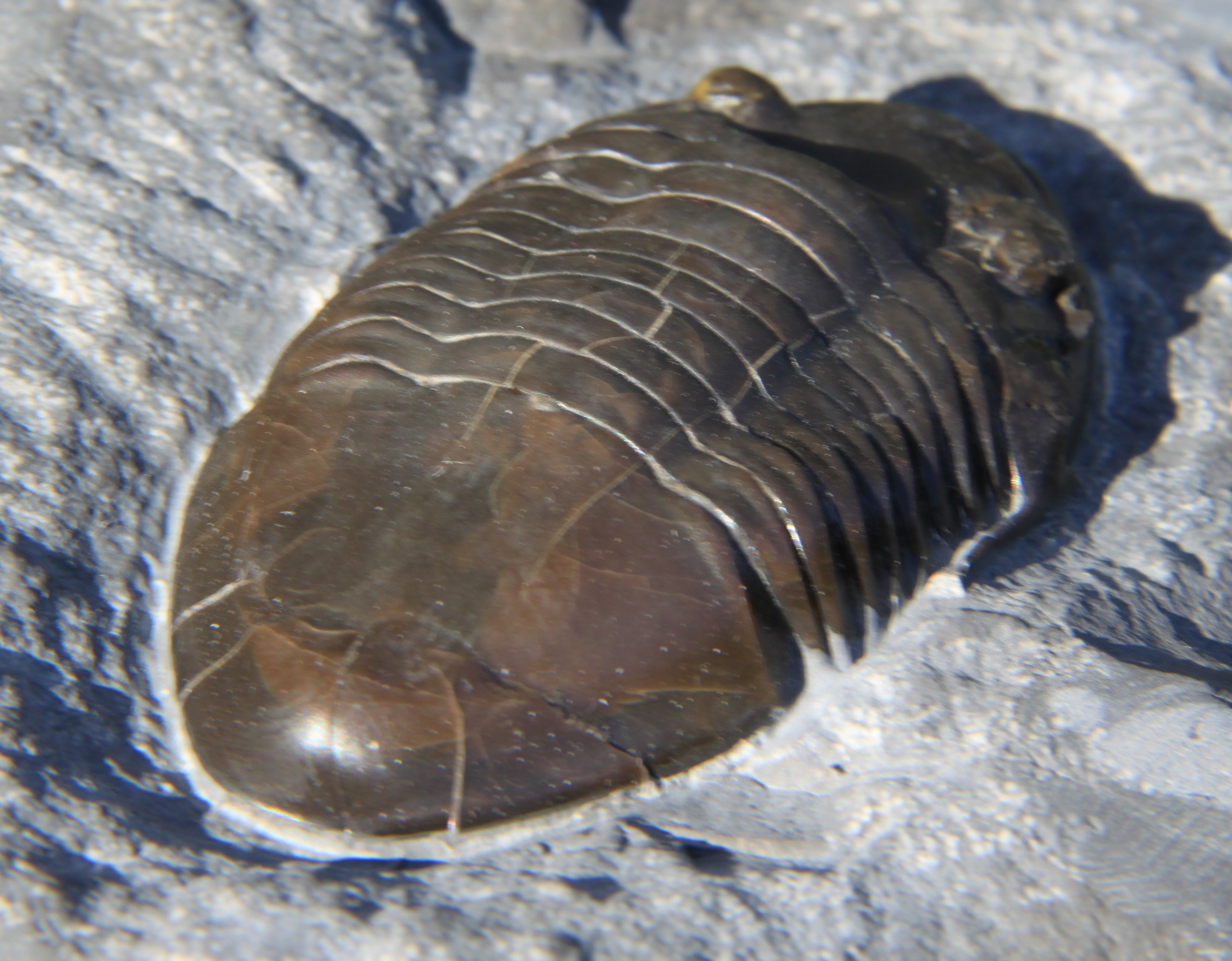 An Isotelus cf. gigas/malfitzi trilobite, Order Asaphida, Family Asaphidae, 65mm along the axis, oblique view from the back but slightly dorsal and lateral, collected near Rochester, New York, USA, from the Silurian